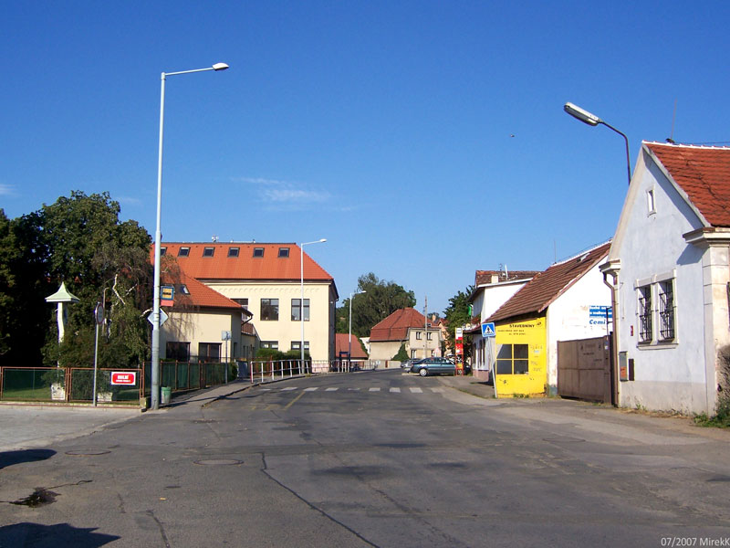 Prague-Lipence, Černošická Street